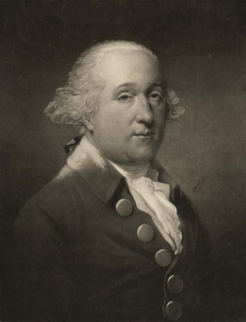 A portrait from the Welsh Portrait Collection at the National Library of Wales. Depicted person: Sir Herbert Mackworth, 1st Baronet – British politician and landowner